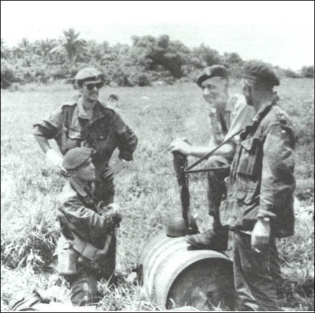 original description: "Major Mine and Lieutenant Legrelle confer, Stanleyviile airfield"[1]